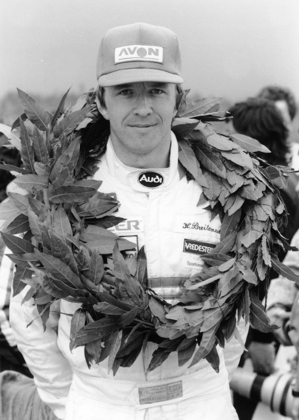 The late Austrian Rallycross driver Herbert Breiteneder (25.11.1953 – 05.04.2008) pictured by myself in 1990.